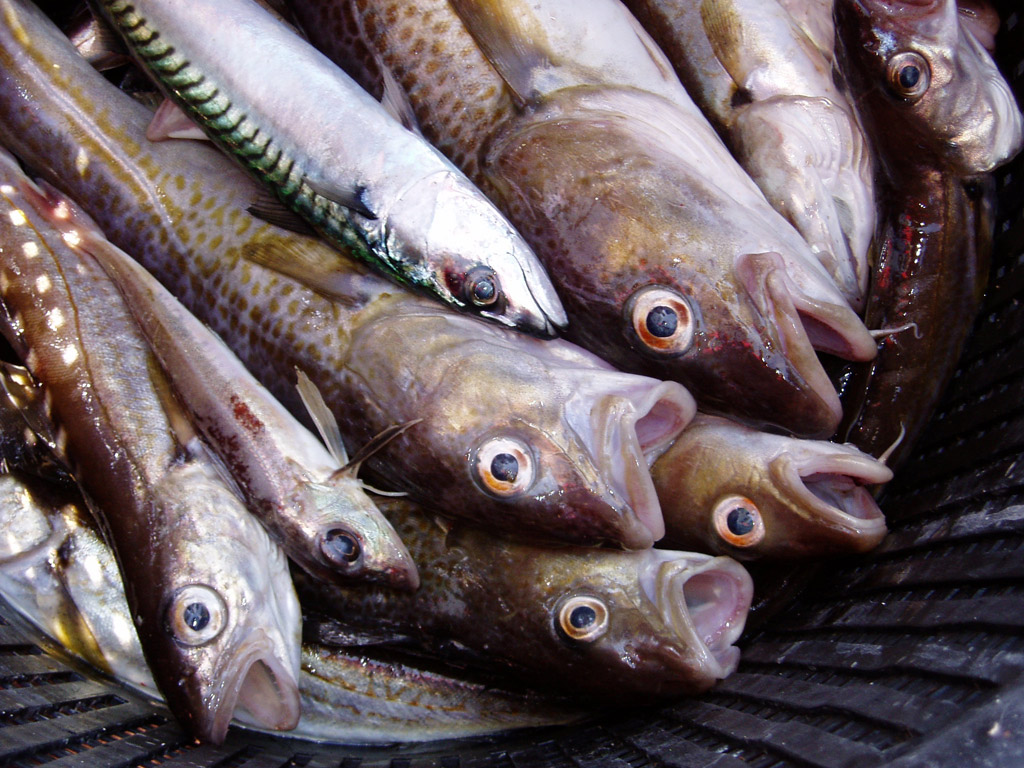 Bucket of fish, caught off the coast of Varberg.A bucket of fish